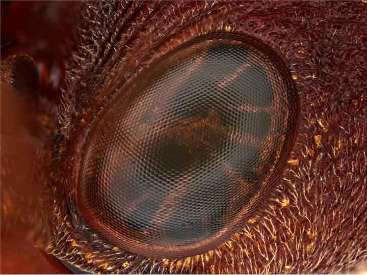 Eye - Worker